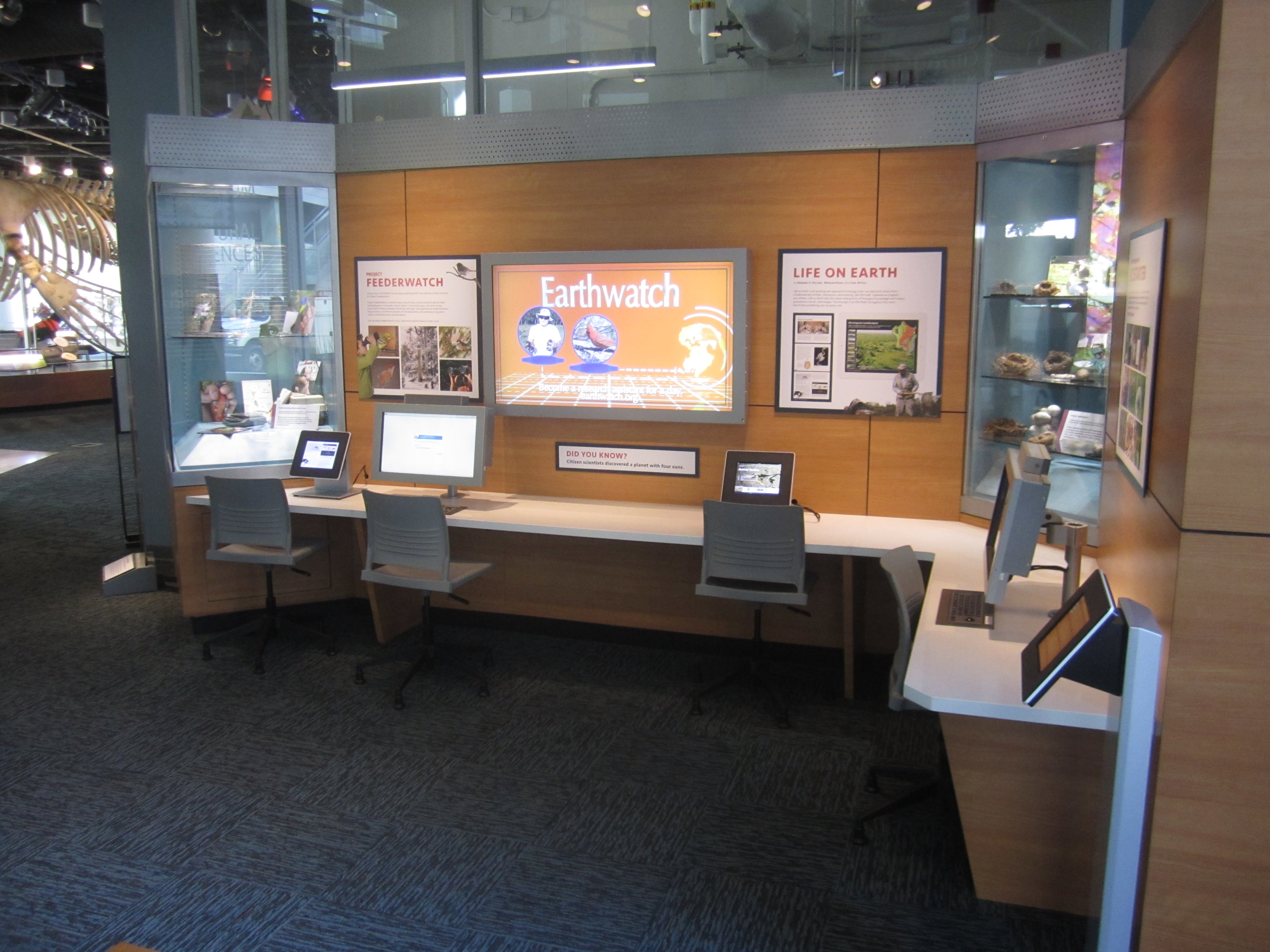 The Citizen Science Center in the Nature Research Center wing of the North Carolina Museum of Natural Sciences exhibits how to get involved in scientific research and experience being a citizen scientist. For example, visitors can observe birdfeeders at the Prairie Ridge Ecostation satellite facility via live video feed and record which species they see.